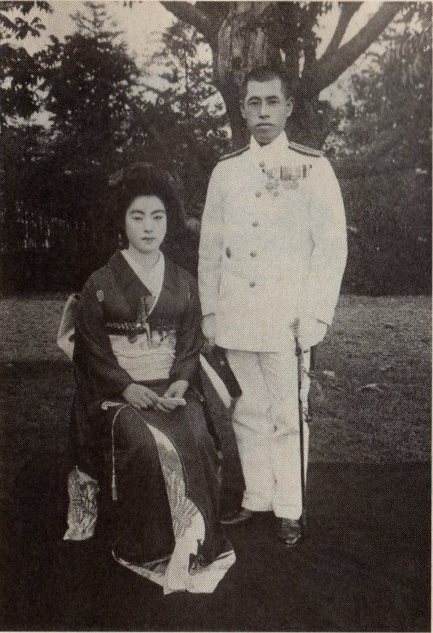 Yamamoto Isoroku and Yamamoto Reiko at their wedding. Her surname before the wedding was Mihashi.